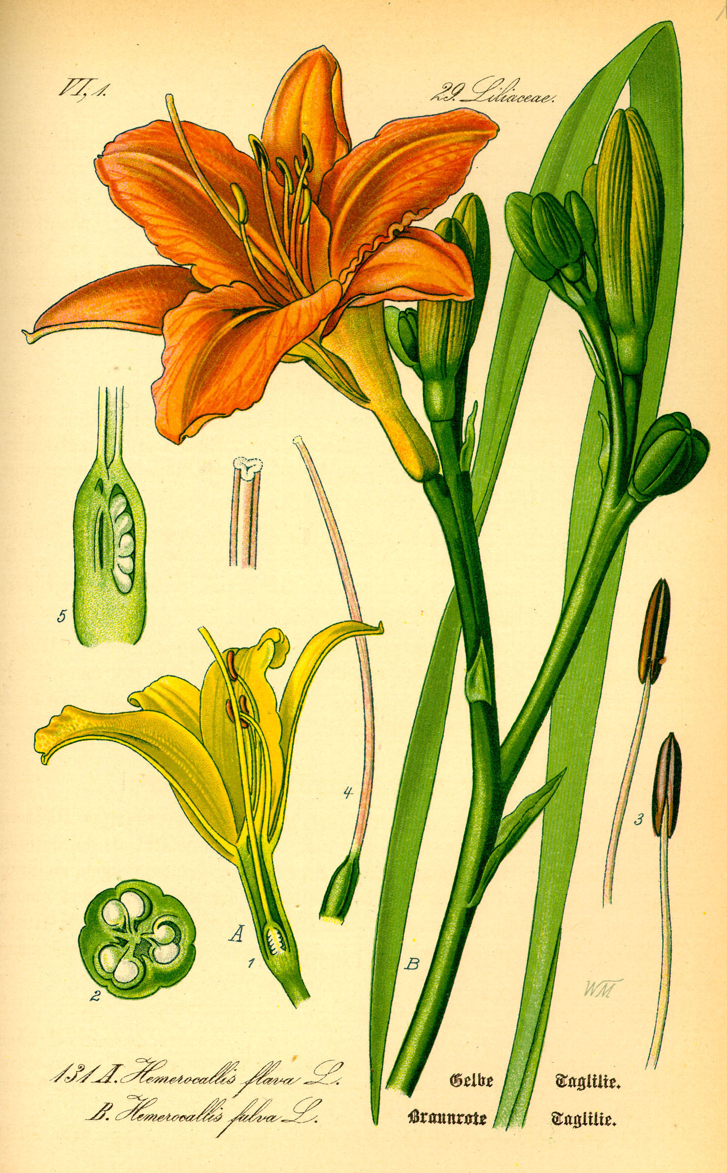 Species :Hemerocallis fulva :Hemerocallis lilioasphodelus Family Hemerocallidaceae Original book source: Prof. Dr. Otto Wilhelm Thomé Flora von Deutschland, Österreich und der Schweiz 1885, Gera, Germany